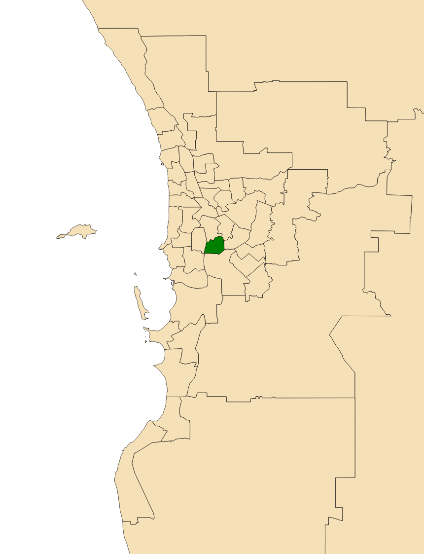 Location of the electoral district of Riverton in the Perth metropolitan area, Western Australia as of the 2017 WA state election.